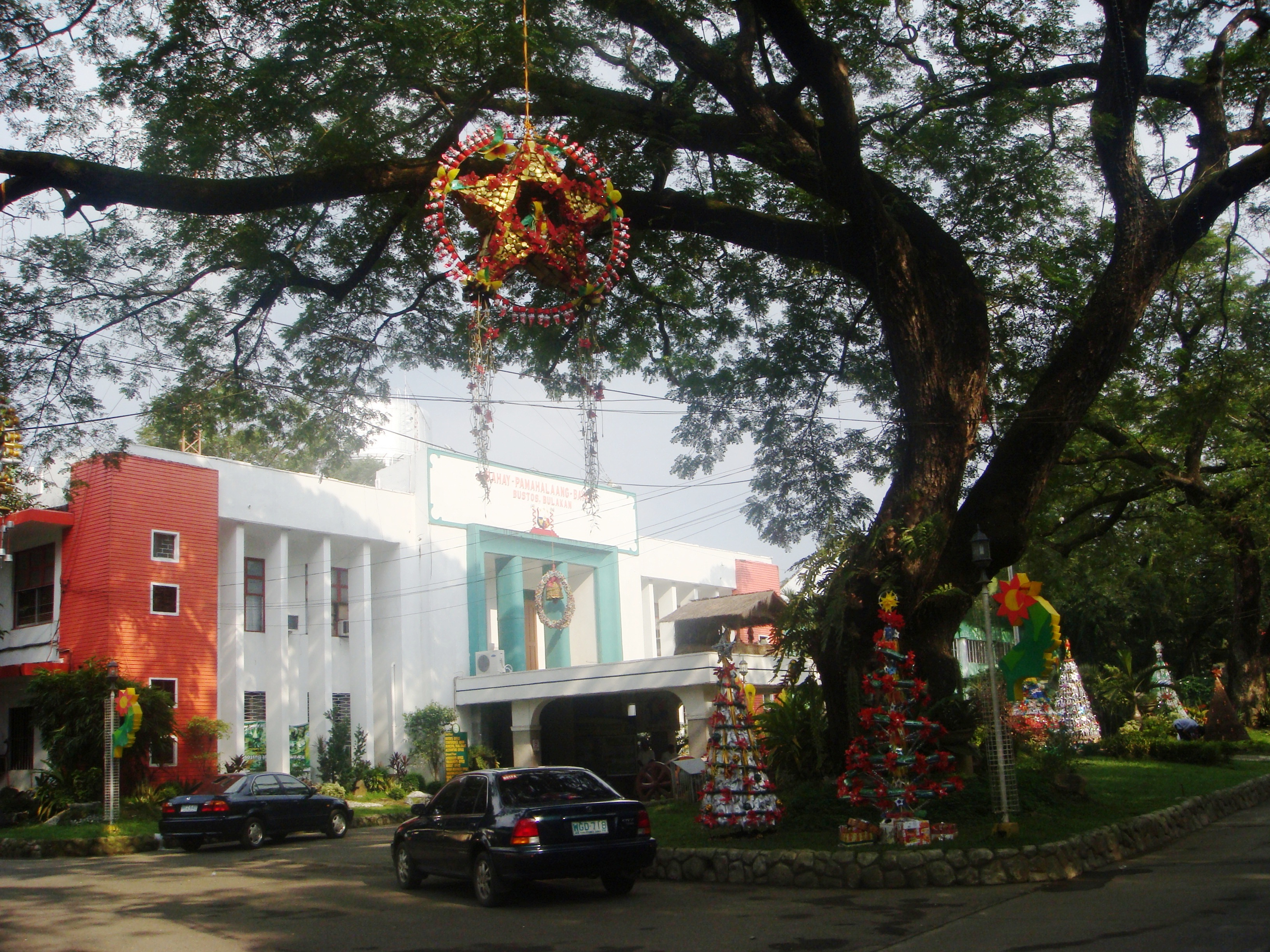 Bahay Pamahalaang Bayan at Poblacion, Bustos[1] since January 1, 1917.